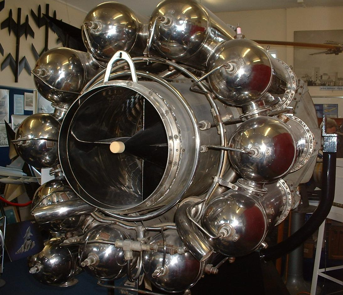 Whittle W2/700 Engine. Frank Whittle developed the first turbojet engine with enough operating thrust to power an aircraft in 1939. The W2 was the second, more powerful, version of a flight-ready turbojet engine developed by Whittle. The W2/700 engine flew in the Gloster E.28/39, the first British aircraft to fly with a turbojet engine, and the Gloster Meteor. Photographed Farnborough, 22-Jan-06.